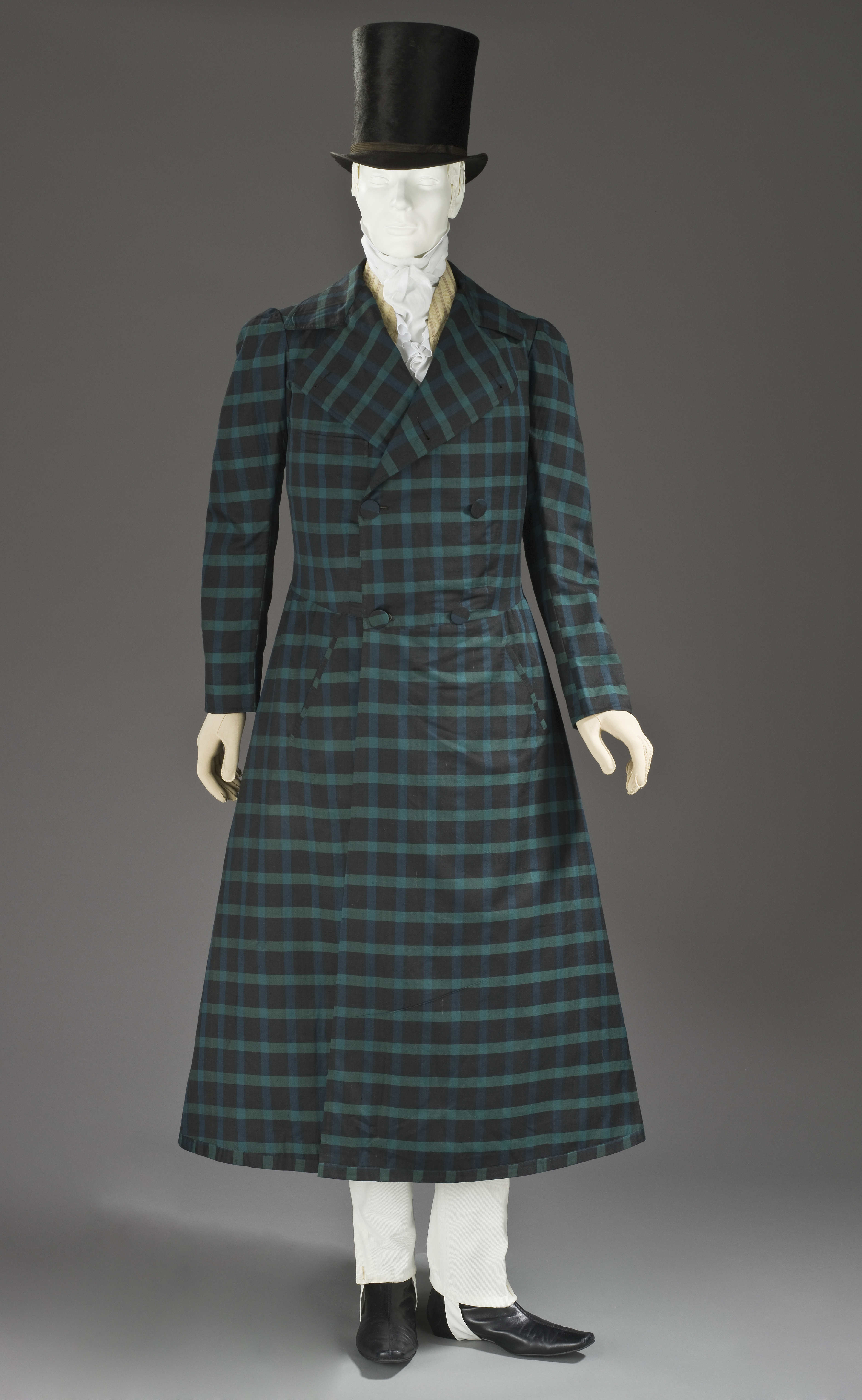 Man's frock coat, France, c. 1816-1820. Double-breasted, silk and wool twill with fabric-covered buttons. Shown with beaver fur top hat, Boston, Masschusetts. c. 1832